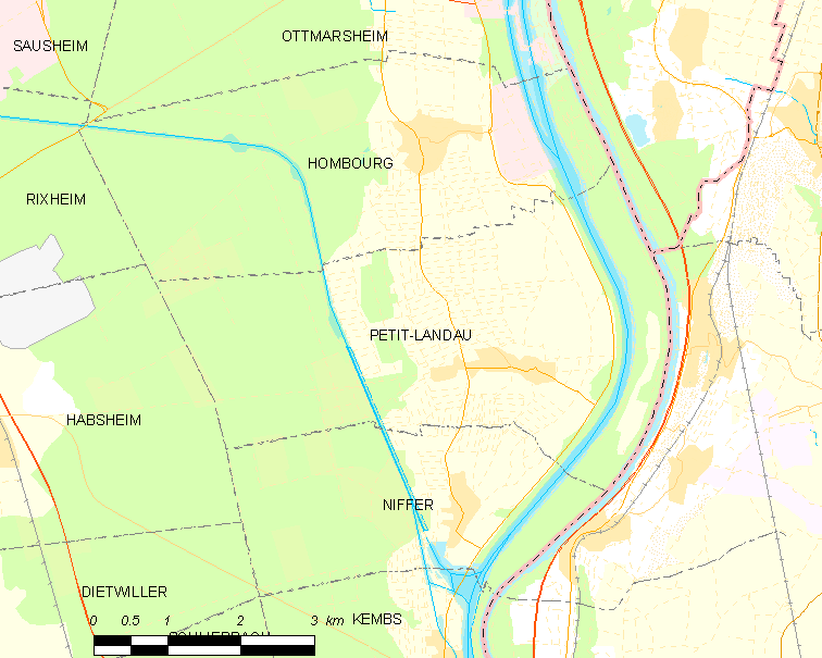 Map of French municipality